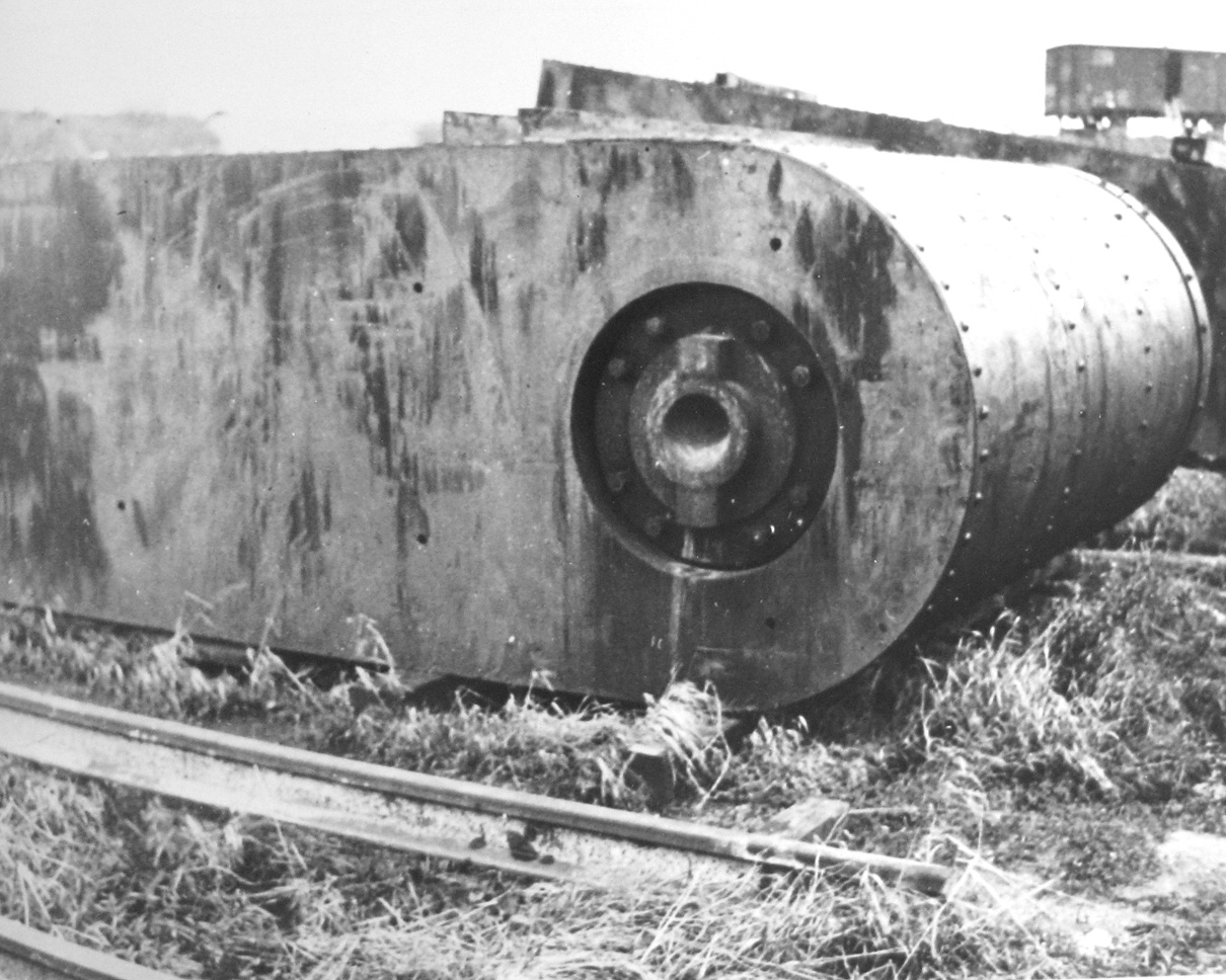 Section of the bomb-proof tunnel entrance doors that would have been installed at the Wizernes V-2 launch site.